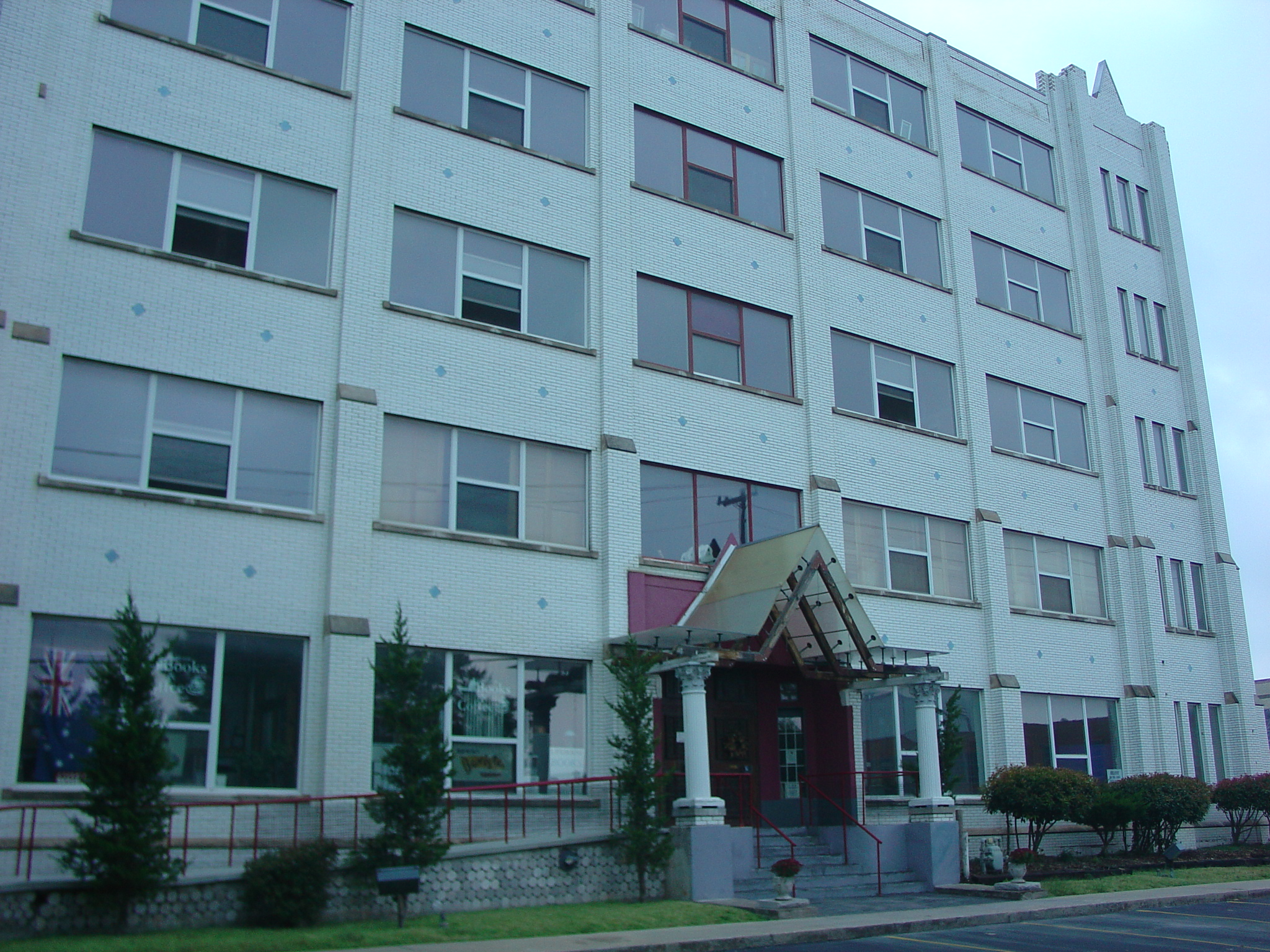 1 NW 12th Street